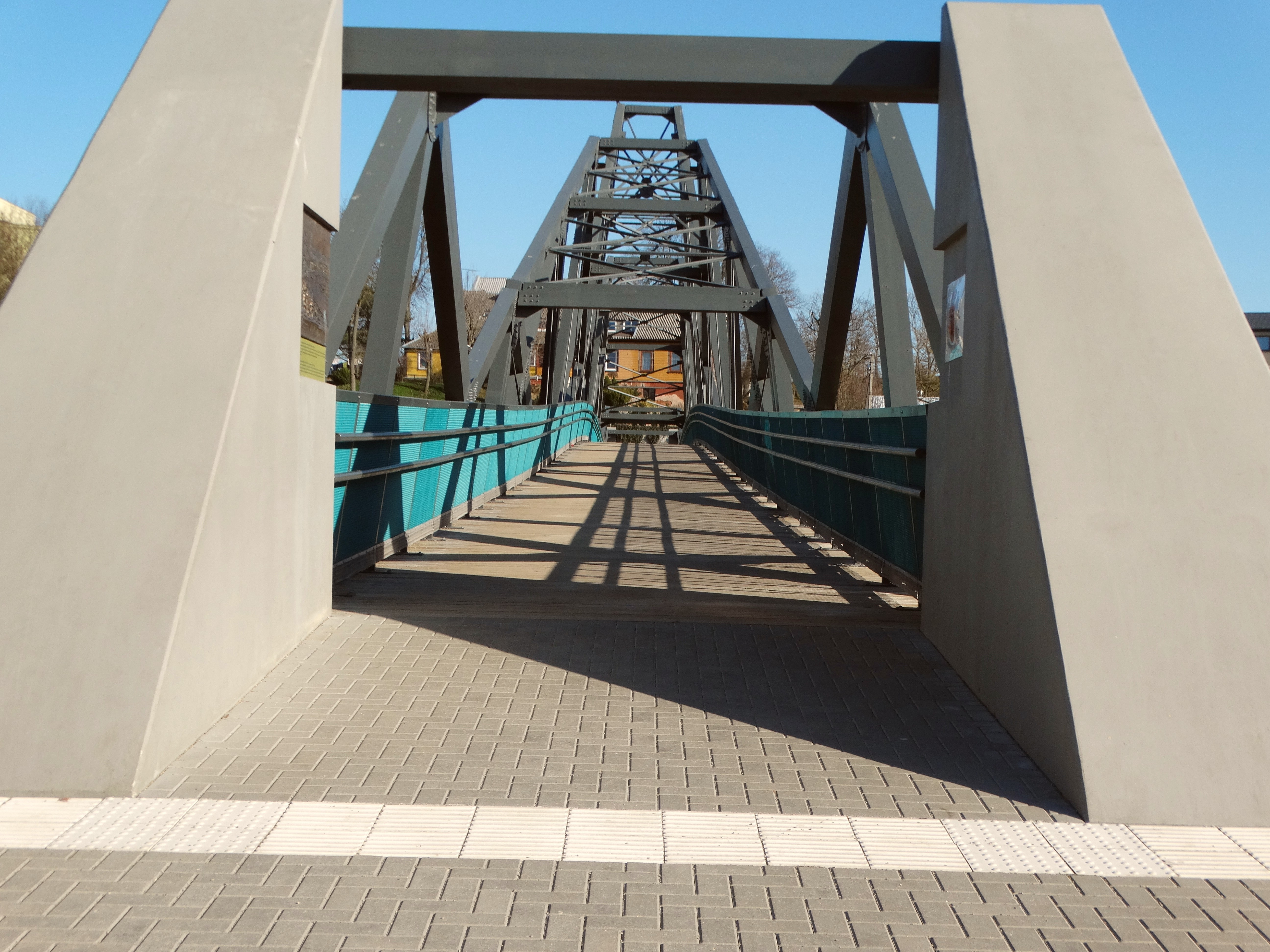 Footbridge, Kėdainiai, Lithuania